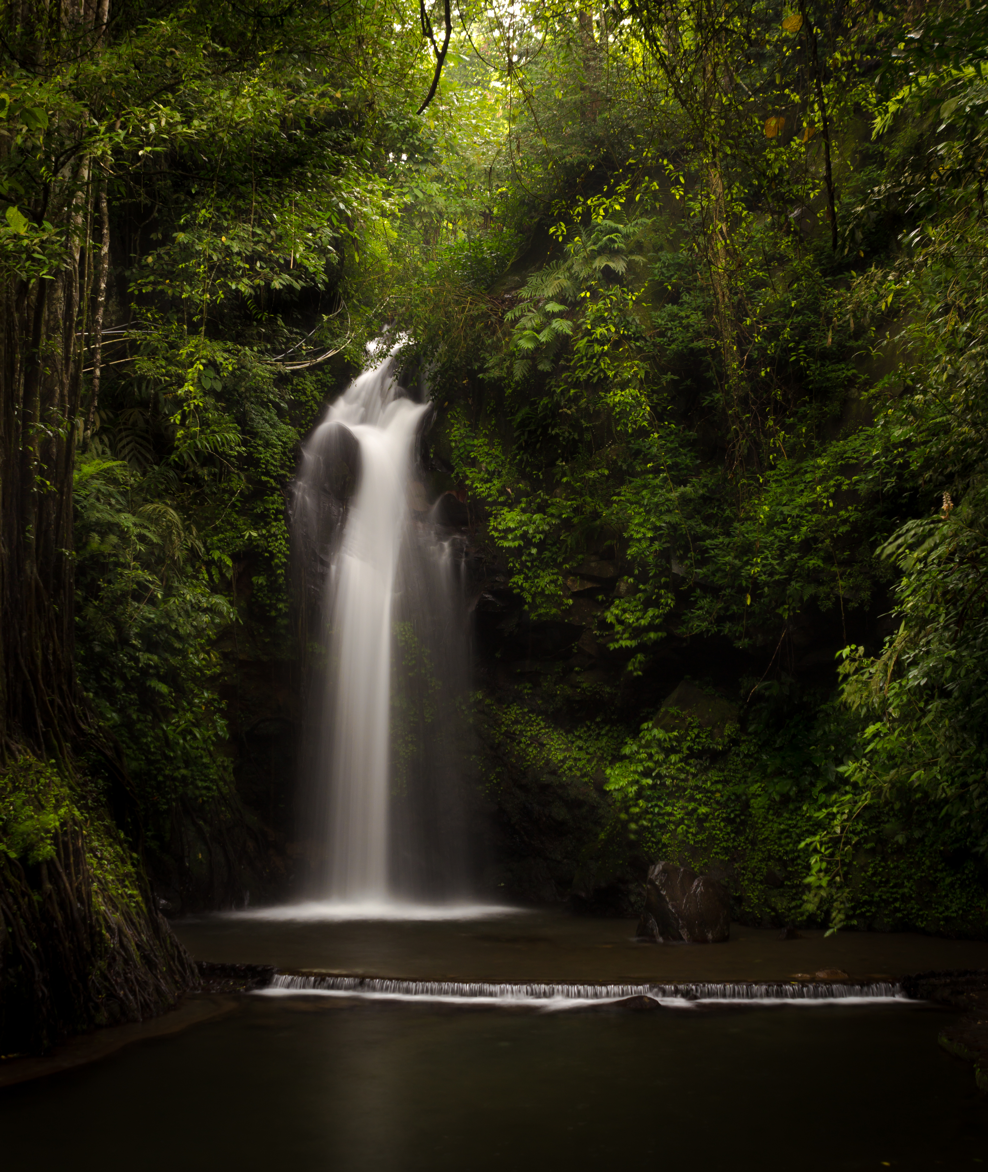 Curug Puteri (which means The Lady Waterfall) is a waterfall located in Mount Ciremai Natinal Park. The name represents its shape, which resembles a woman in white gown when shot wth long exposure.